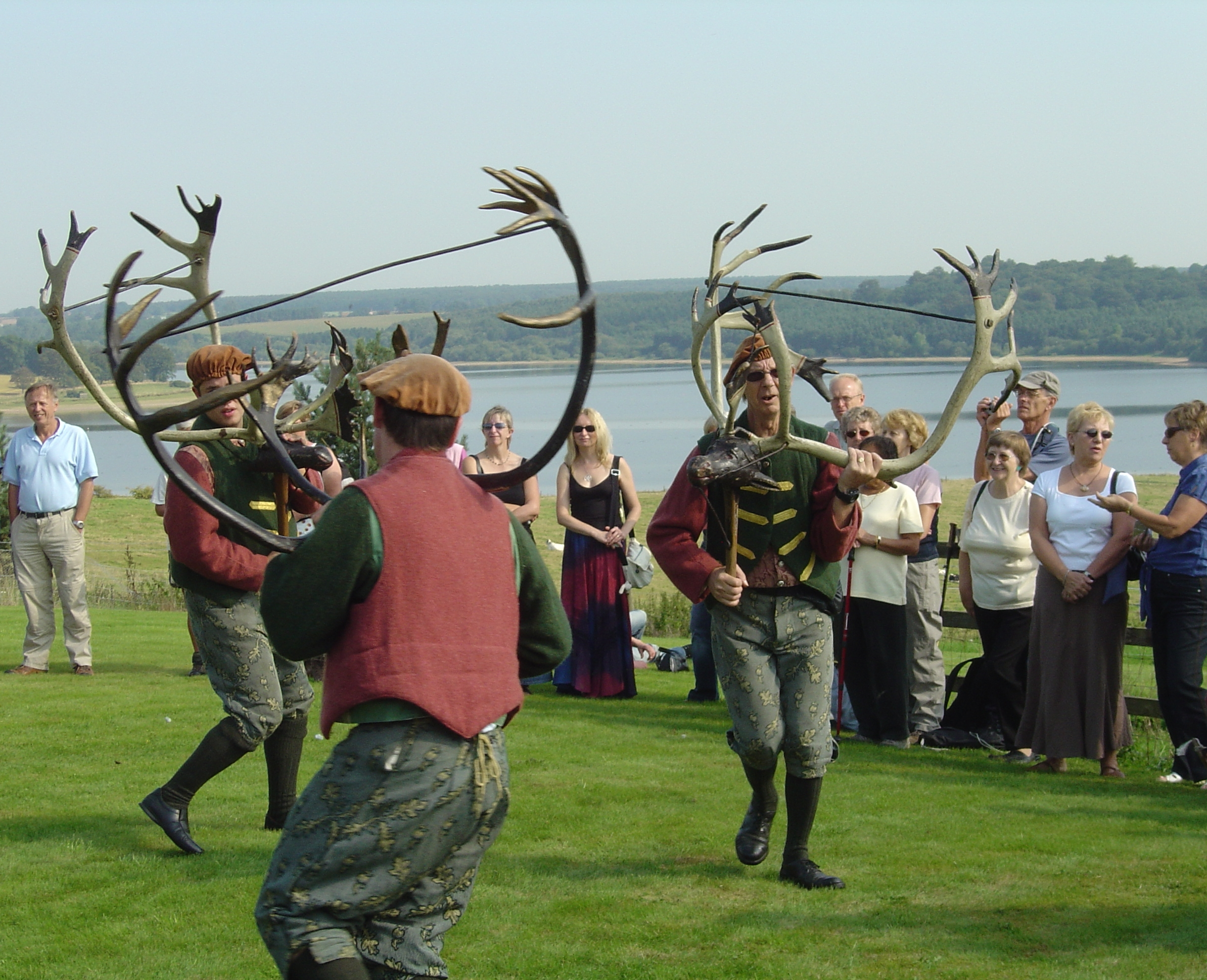 Abbots Bromley Horn Dance above Blithfield Reservoir